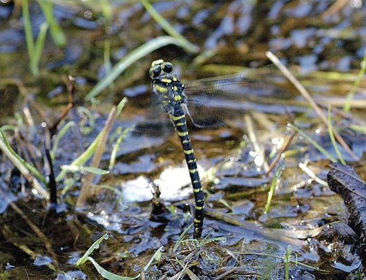 Picture taken in Commanster, Belgian High Ardennes . Species: Cordulegaster boltonii female laying eggs